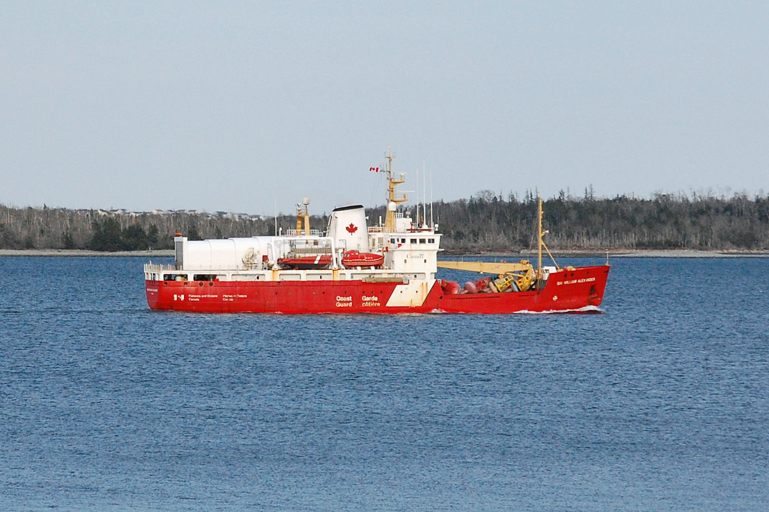 CCGS Sir William Alexander, a Canadian Coast Guard vessel, as seen from York Redoubt, Nova Scotia.